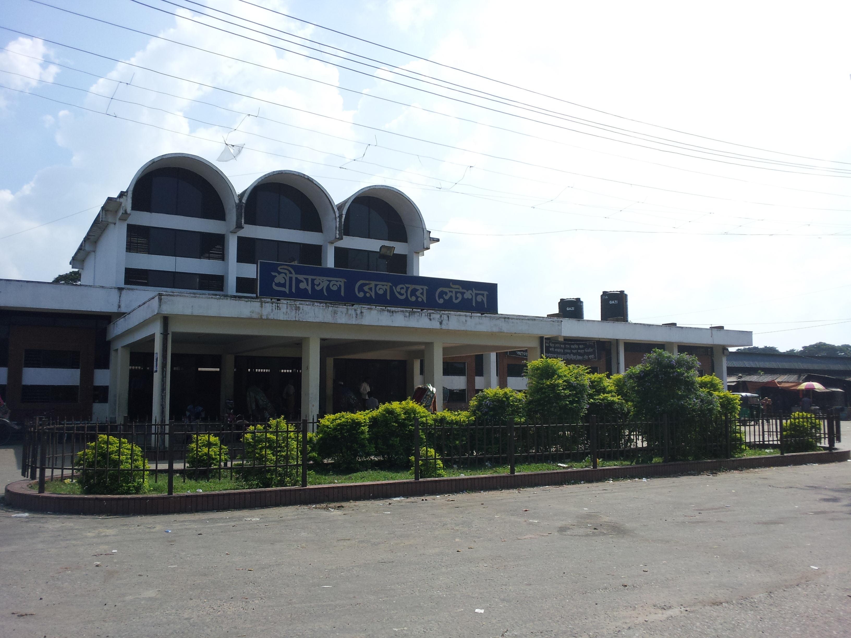 The railway station of Srimangal - an Upazila of Maulvi Bazar District of Bangladesh